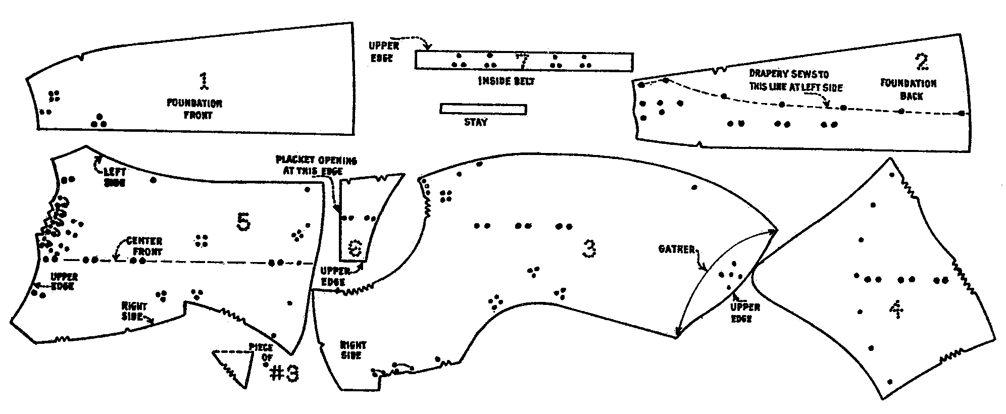 Schematic for Butterick pattern 5688, a skirt for an evening dress, extracted from patent US1313496 (patent for instruction sheet). (Note that piece 3, right side drapery, is wider than the pattern paper and was produced as two pieces to be joined together before use; small triangular piece at bottom left joins to larger piece along straight section under words "right size".) For instruction sheet, see "Deltor for Butterick 5688 from patent US1313496.gif" (front) and "Deltor for Butterick 5688 from patent US1313496 verso.gif" (back).